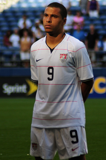 Photo of soccer player, Charlie Davies.